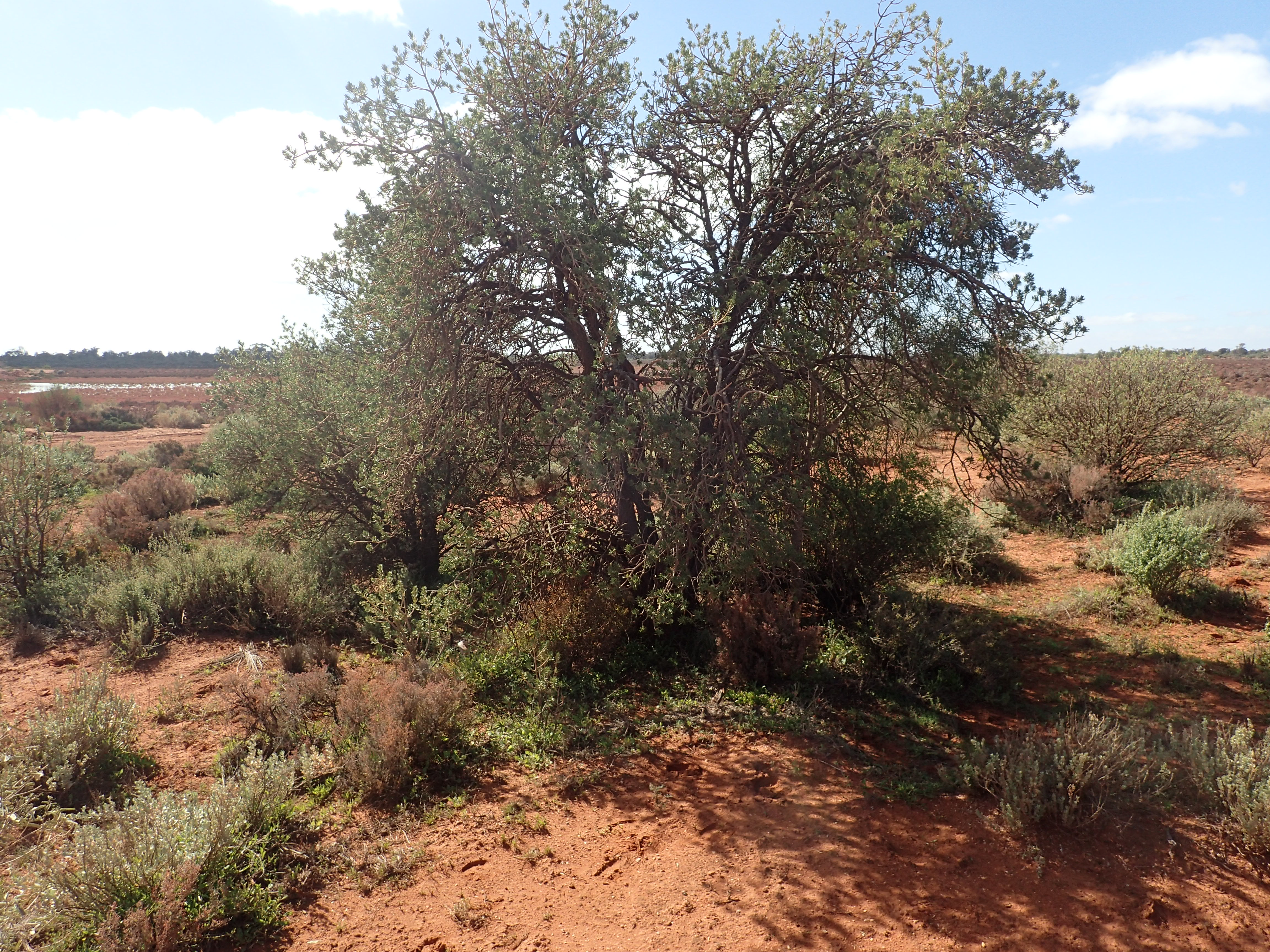 Eremophila miniata growing 25 km along the Yarri Road from Kalgoorlie